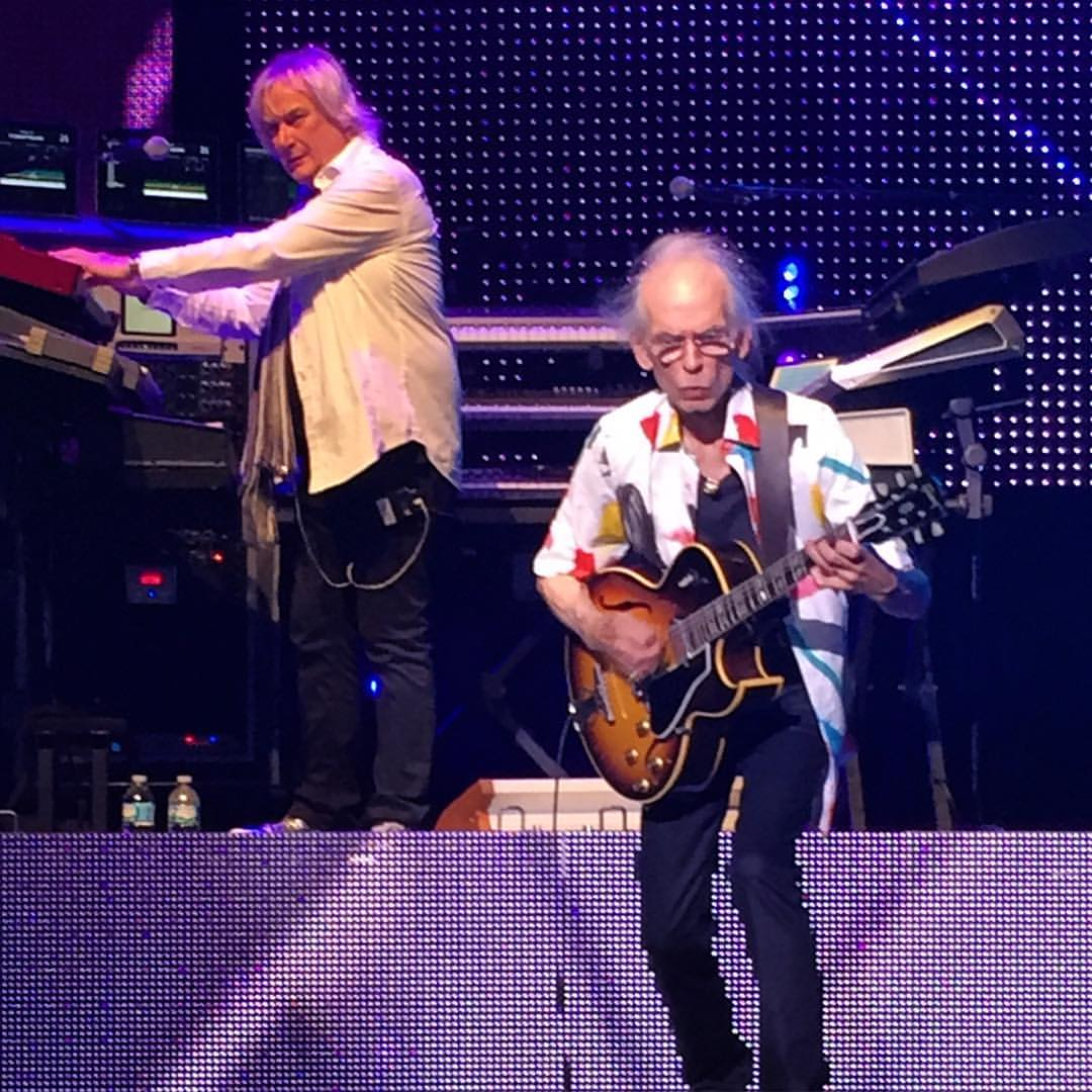 Geoff Downes and Steve Howe of Yes.